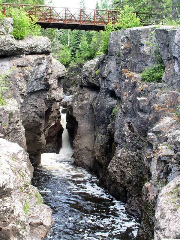 Superior Hiking Trail bridge over Temperance River, Temperance River State Park, Minnesota, USA